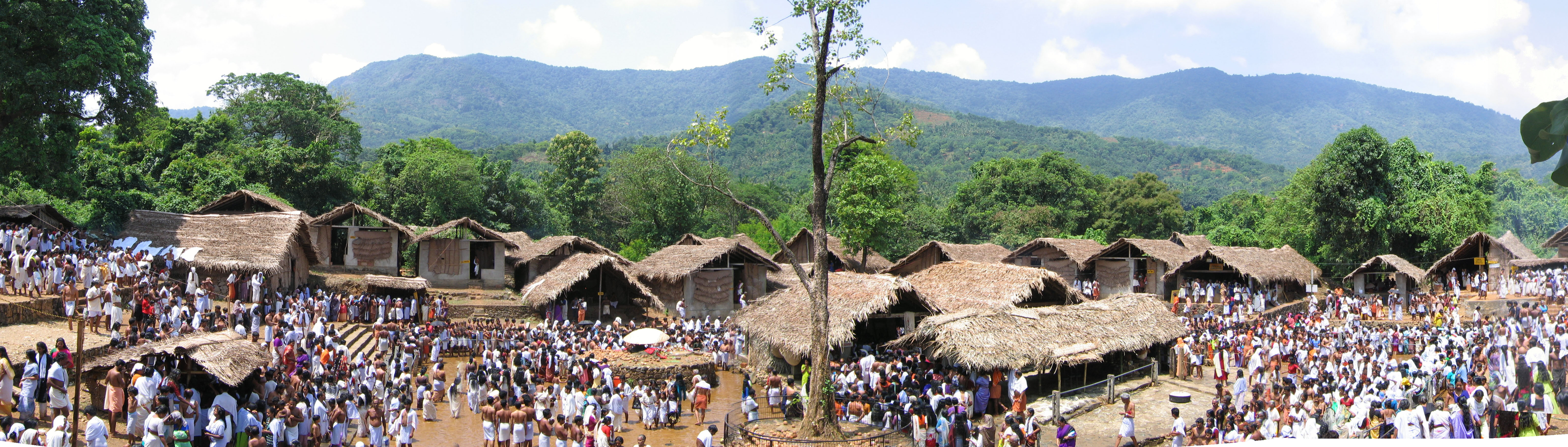 Devotees throng for the annual festival at Kottiyoor temple. Taken during the 2005 festival season.